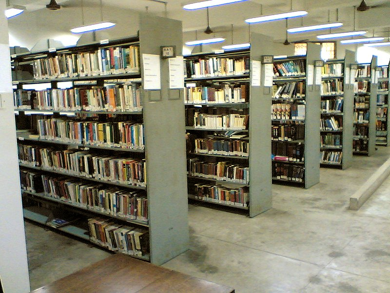 clicked on 12/12/06 using nokia 6600